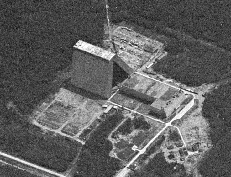 Receiver building of Dunay-3 ABM radar in Kubinka outside Moscow. Declassified photo from KH-7 spy satellite from 1967.